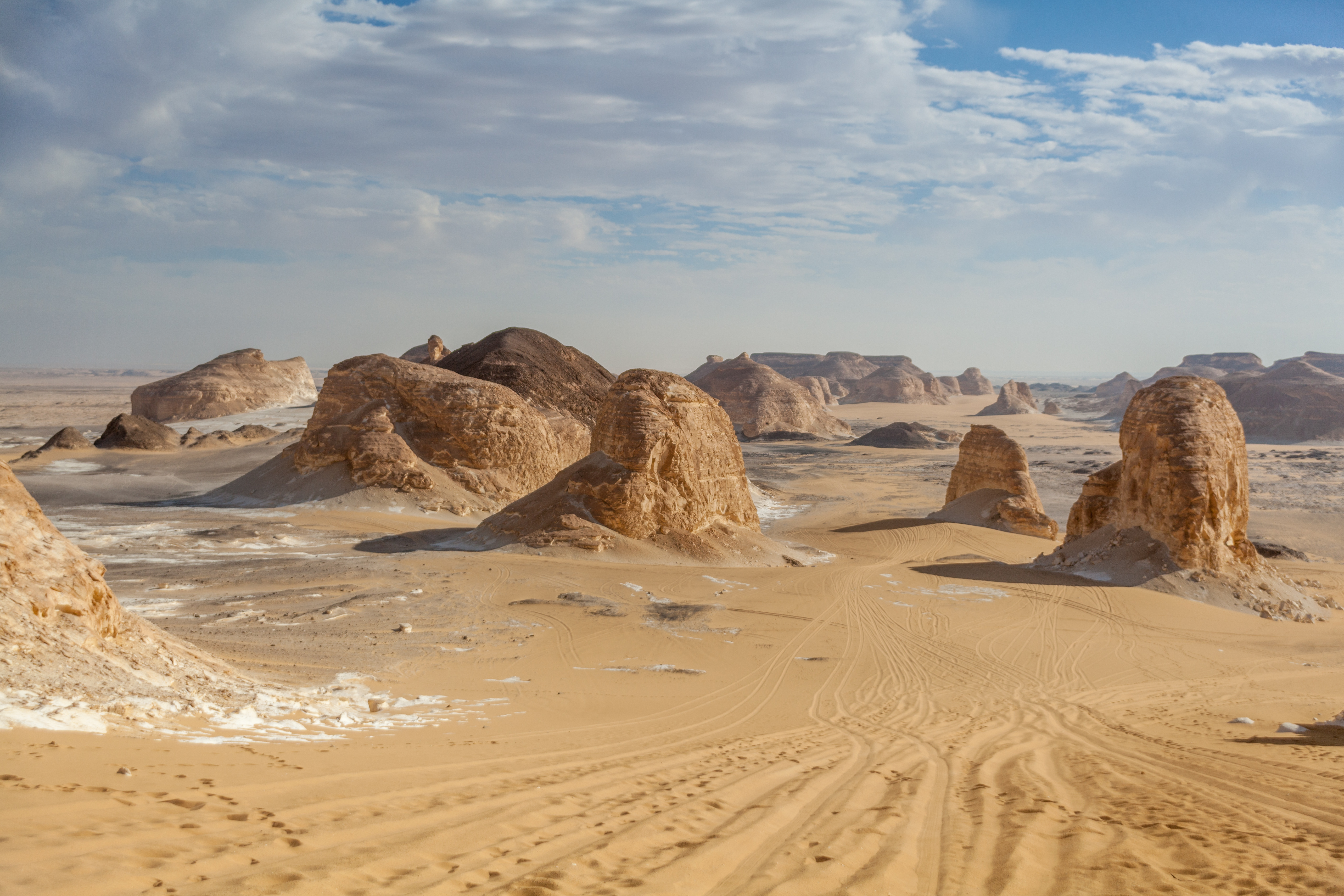 Al Farafrah, New Valley Governorate, Egypt